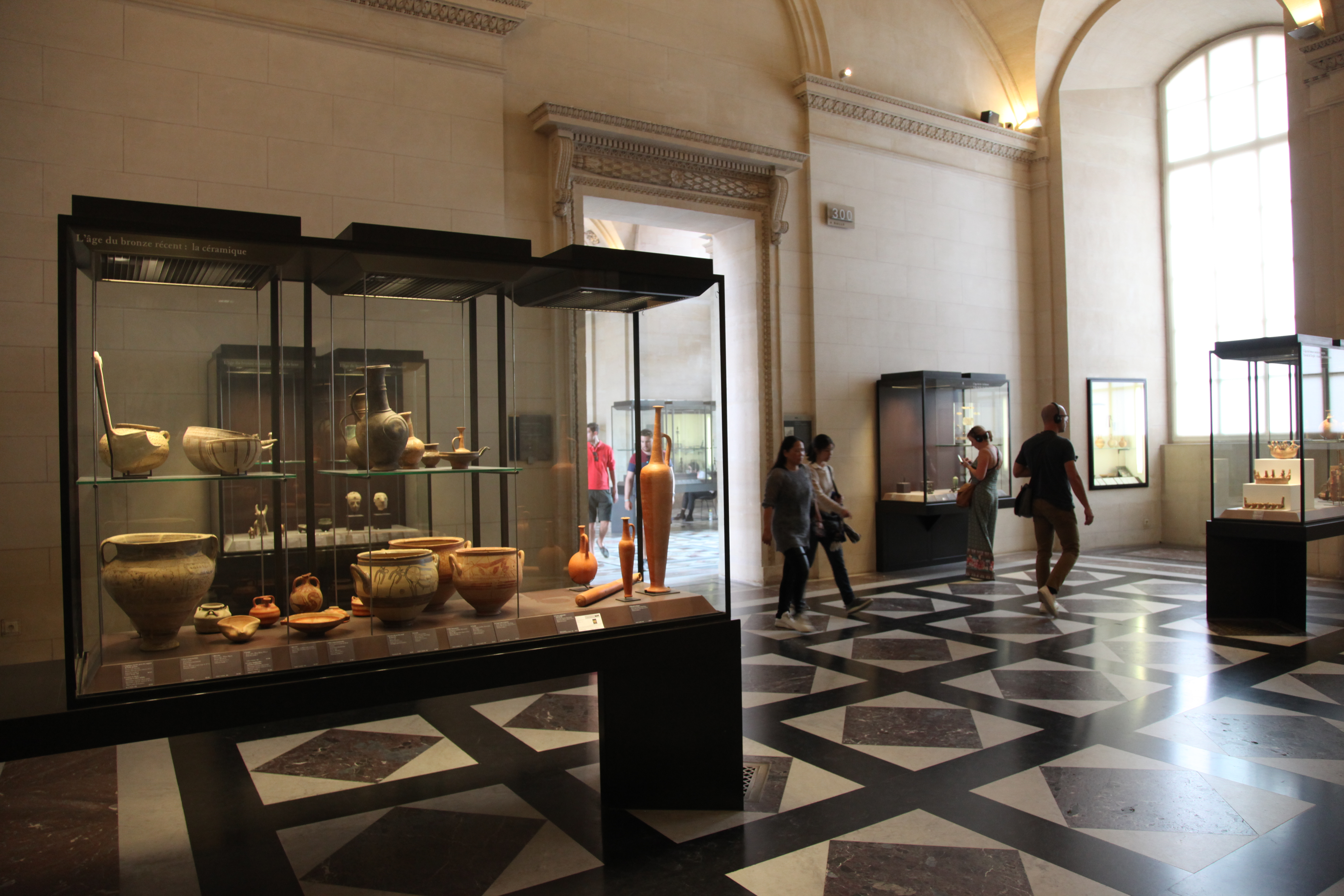 Room 300 of the Louvre